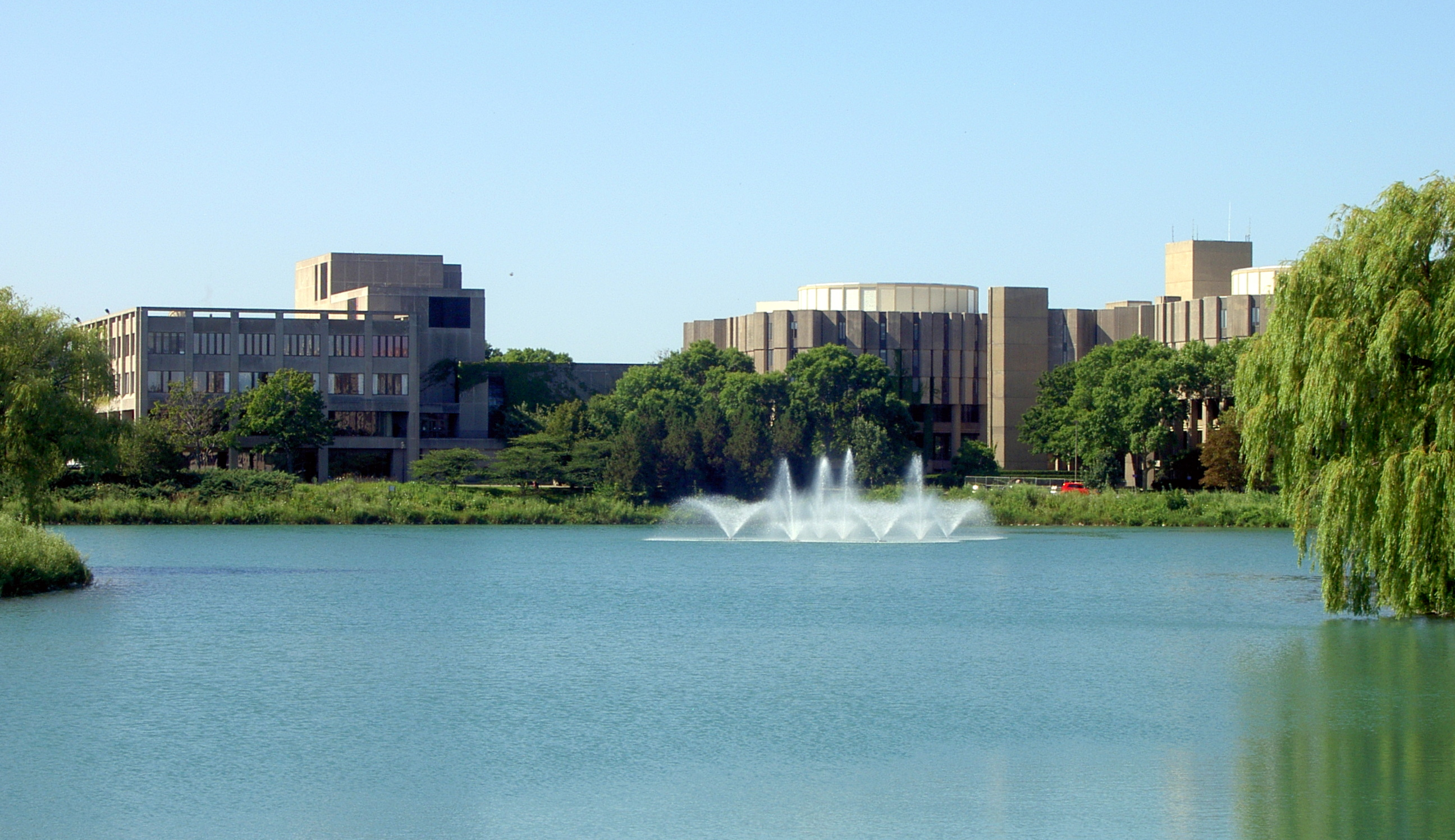 Evanston campus